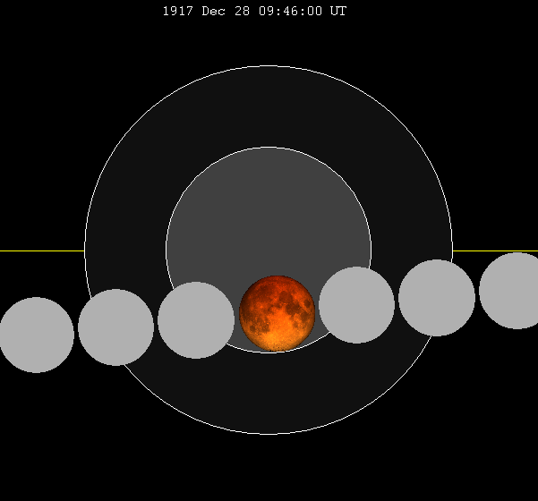 =lunar eclipse chart of moon's path through the earth's shadow. thumb